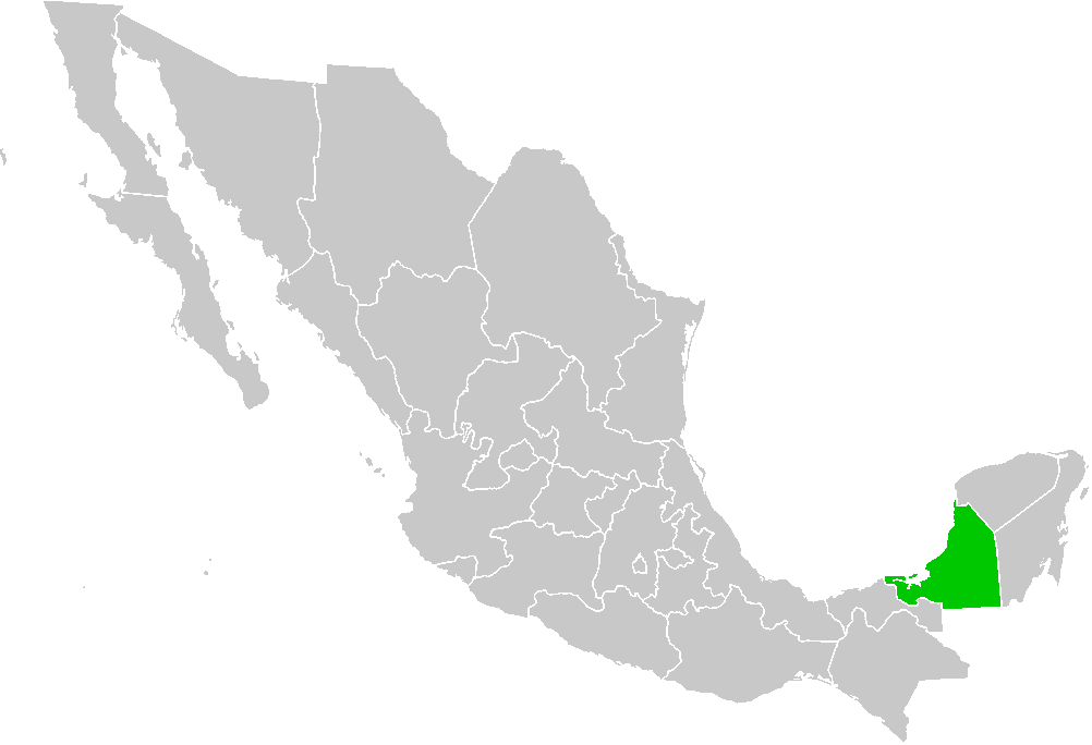 Map of the former Mexican territory of Campeche y el Carmen